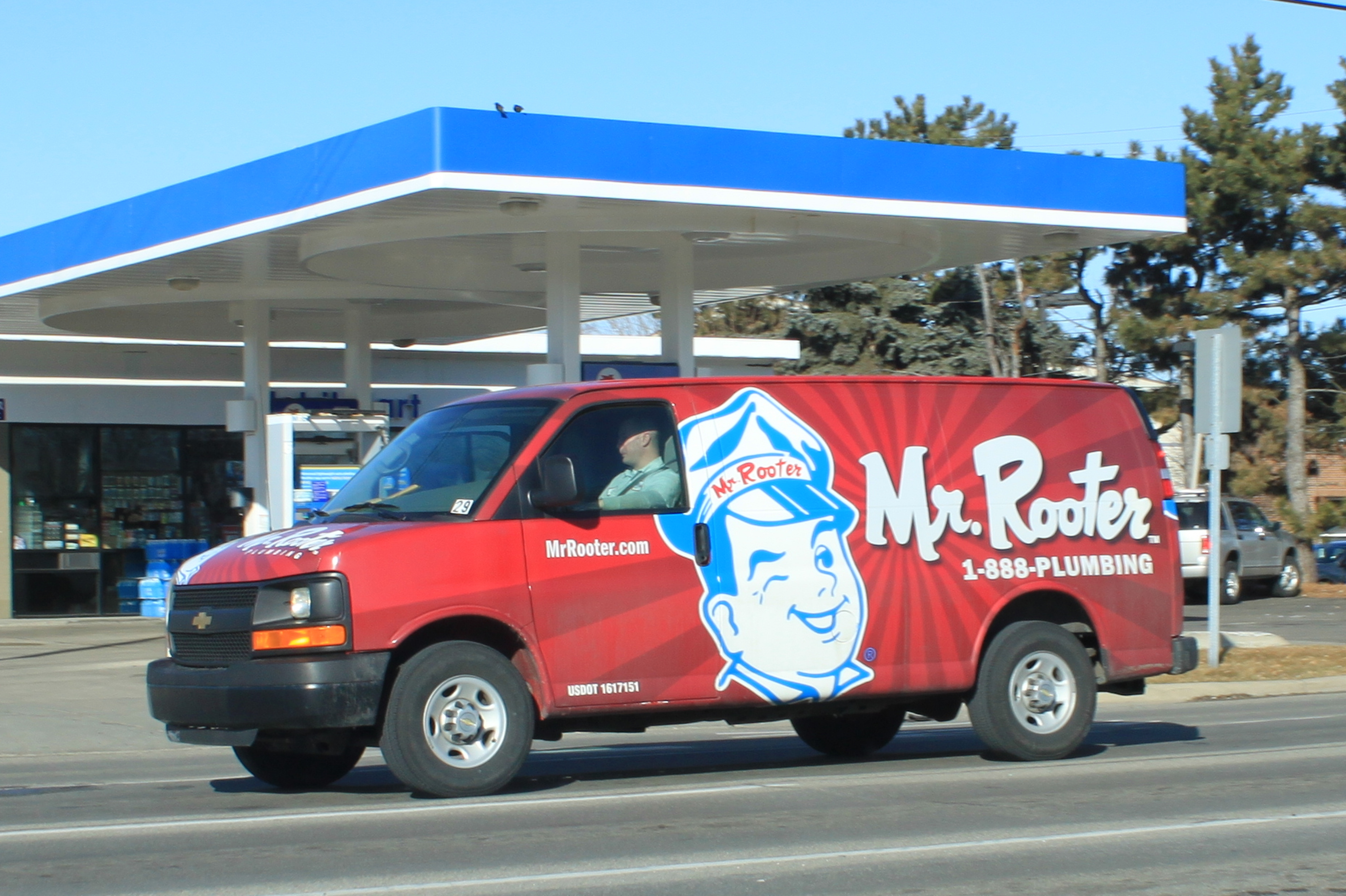 Mr. Rooter service vehicle, Farmington Road and Six Mile Road, Livonia, Michigan. Livonia is the correct location. I misnamed the file.